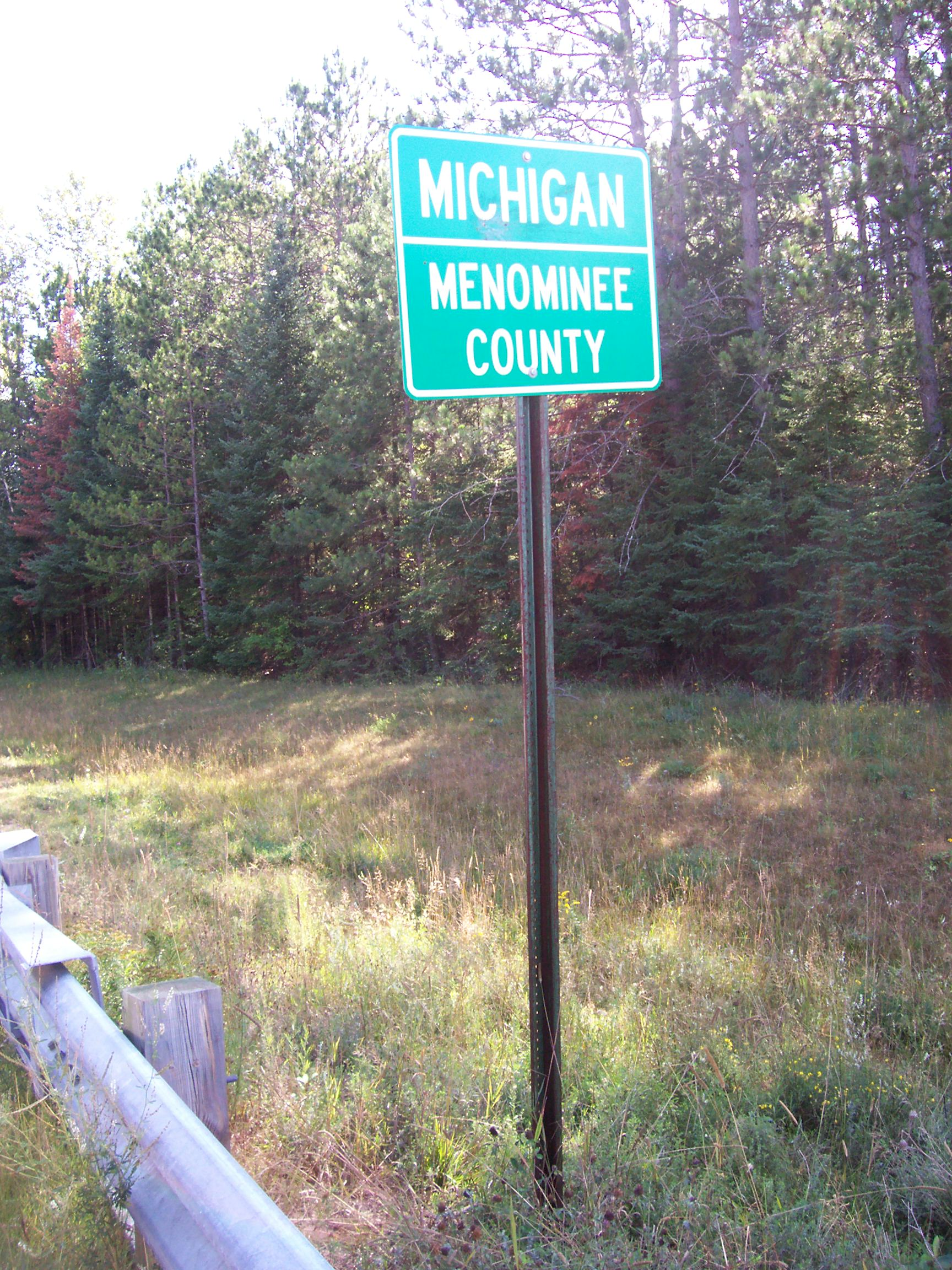 The welcome sign for Menominee County, Michigan along the Menominee River near Banat.